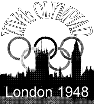 Simil Logo 1948 Summer Olympics London. Free interpretation of the author. IS NOT THE REAL LOGO. Transparent. This is the real logo